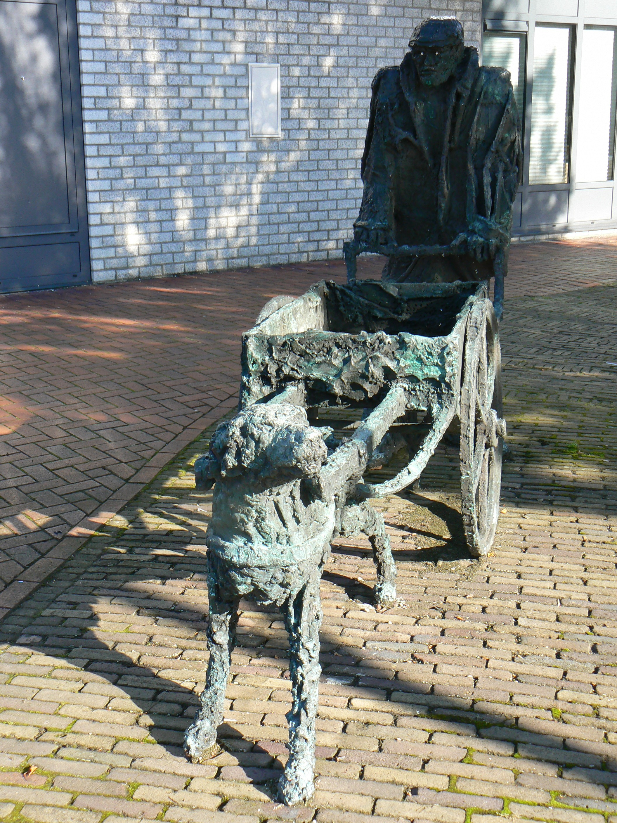 sculpture Man met hondekar (1985) by Hans Mes in Oude Pekela/The Netherlands